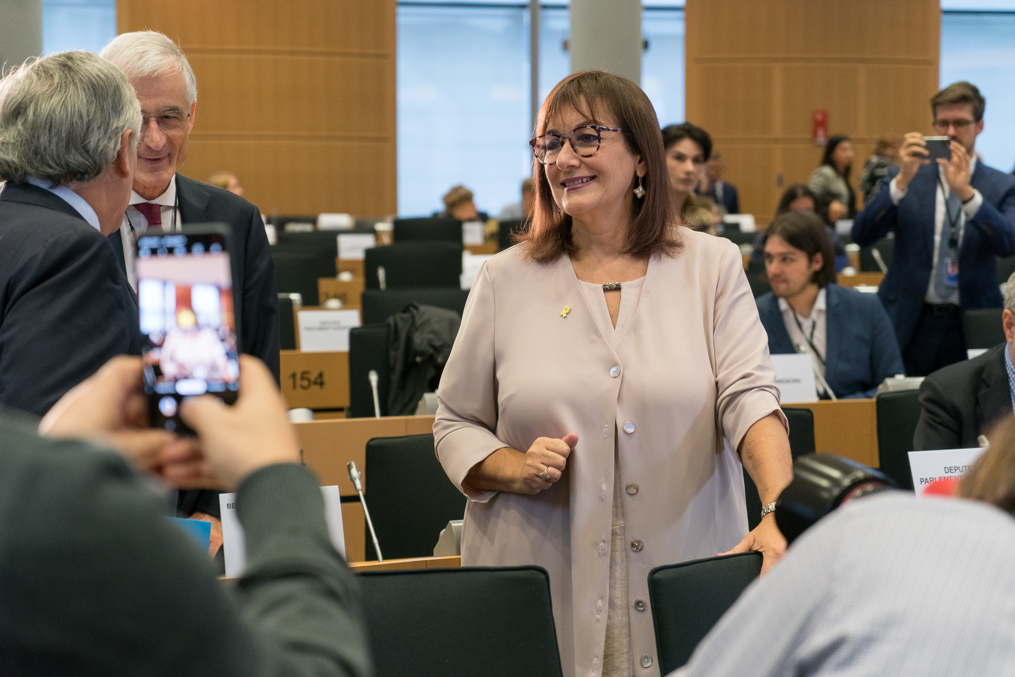 Before the European Parliament can vote the new European Commission led by Ursula von der Leyen into office, parliamentary committees will assess the suitability of commissioners-designate. On 23-26 May, more than 200,000,000 people in 28 EU countries went to the polls to elect members of the European Parliament, giving them a strong democratic mandate, including voting into office the new European Commission and examining the competencies and abilities of its commissioners-designate. Elected members of the European Parliament will also listen to their ideas and will assess their willingness to take concrete actions on the issues that Europeans care about. Each candidate commissioner is invited for a live-streamed, three-hour hearing in front of the committee or committees responsible for their proposed portfolio. The hearings will take place between Monday 30 September and Tuesday 8 October. This photo is free to use under Creative Commons license CC-BY-4.0 and must be credited: "CC-BY-4.0: © European Union 2019 – Source: EP". No model release form if applicable. For bigger HR files please contact: webcom-flickr(AT)